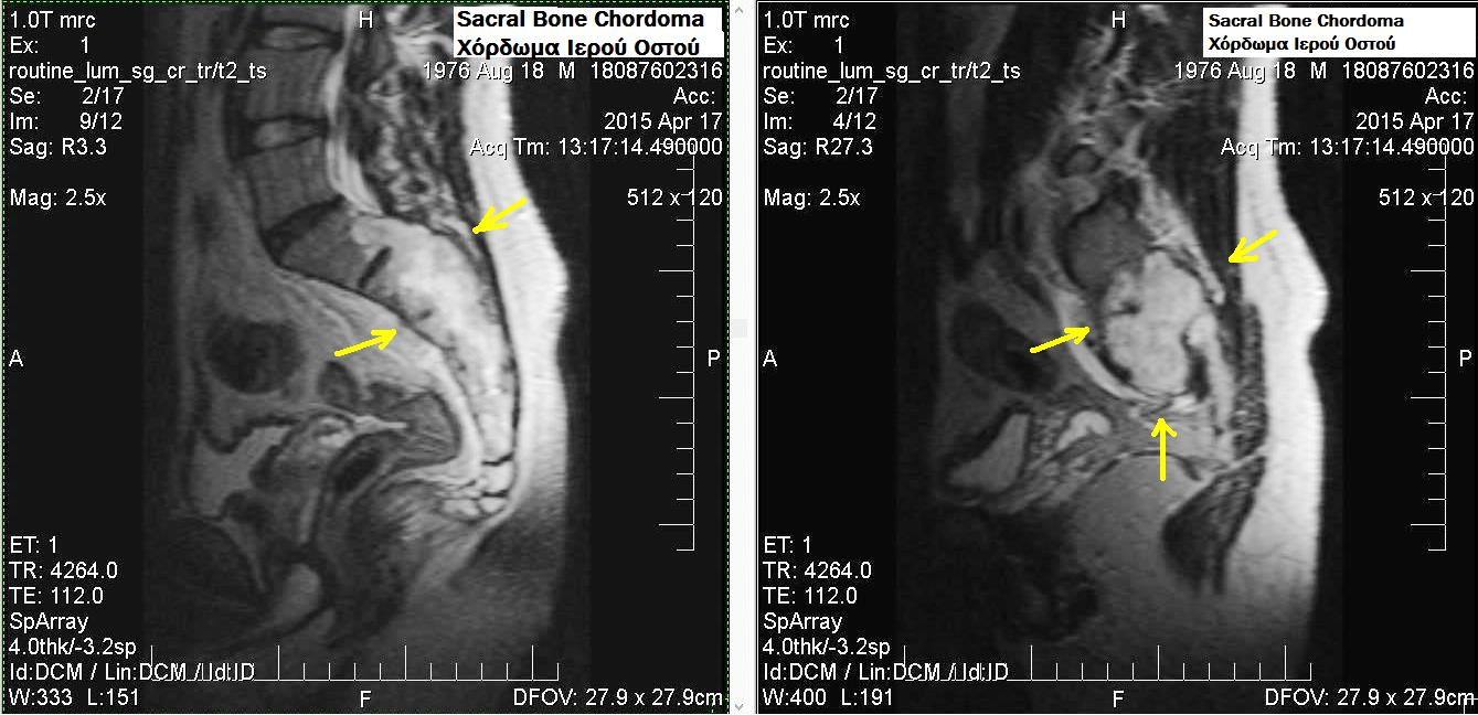 This is an MRI Image of Sacral Bone Chordoma in a man 35 years old. It penetrates sacral bone from back to the front. Other information No